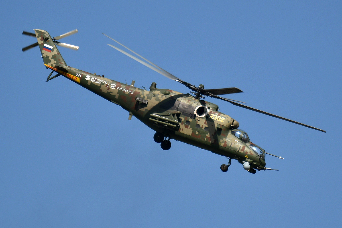 Russian Helicopters, 2302, Mil Mi-35M